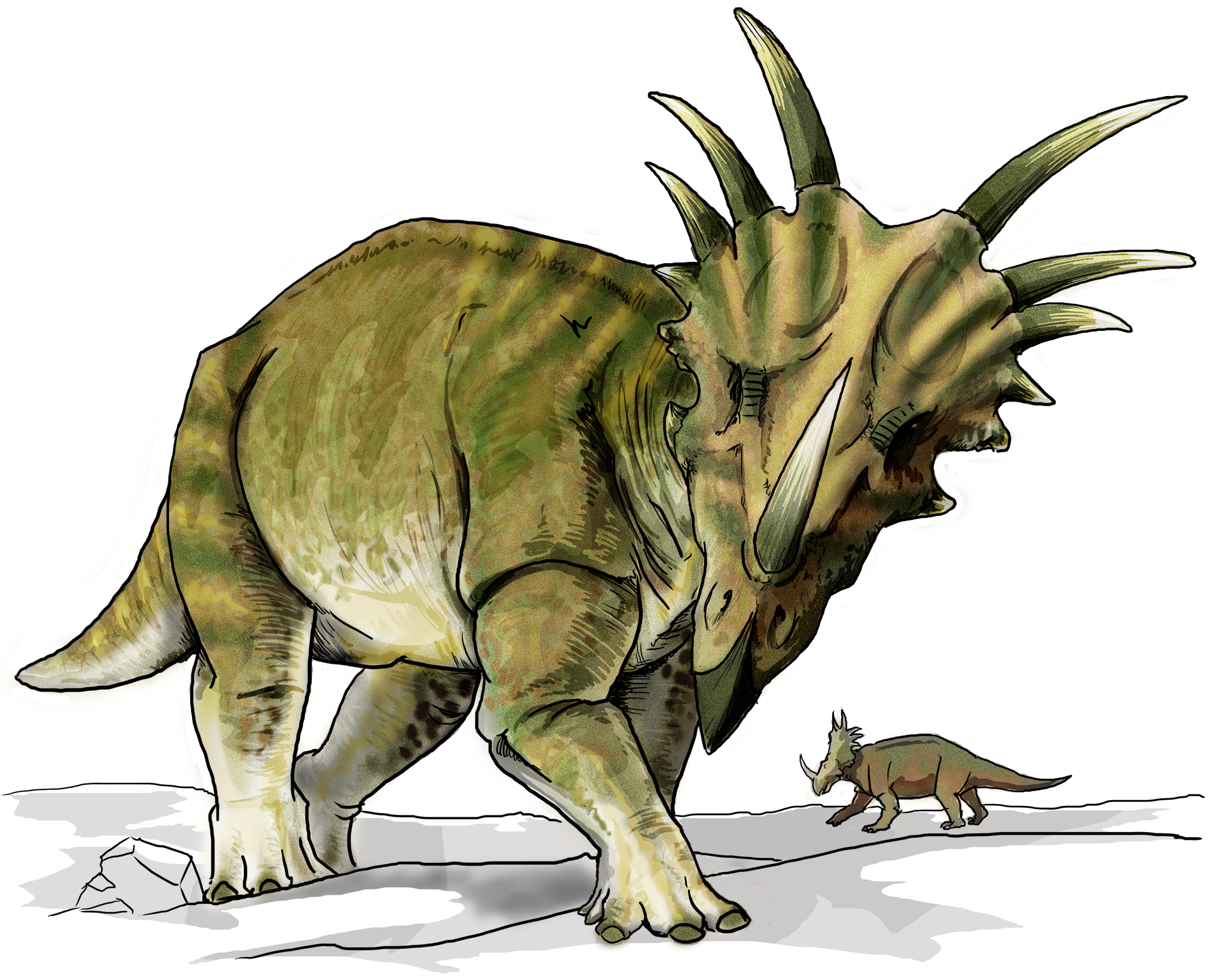 Styracosaurus (meaning "spiked lizard" from Greek styrax/στυραξ 'spike at the butt-end of a spear-shaft' and saurus/σαυρος 'lizard')[1] was a genus of herbivorous ceratopsian dinosaur from the Cretaceous Period